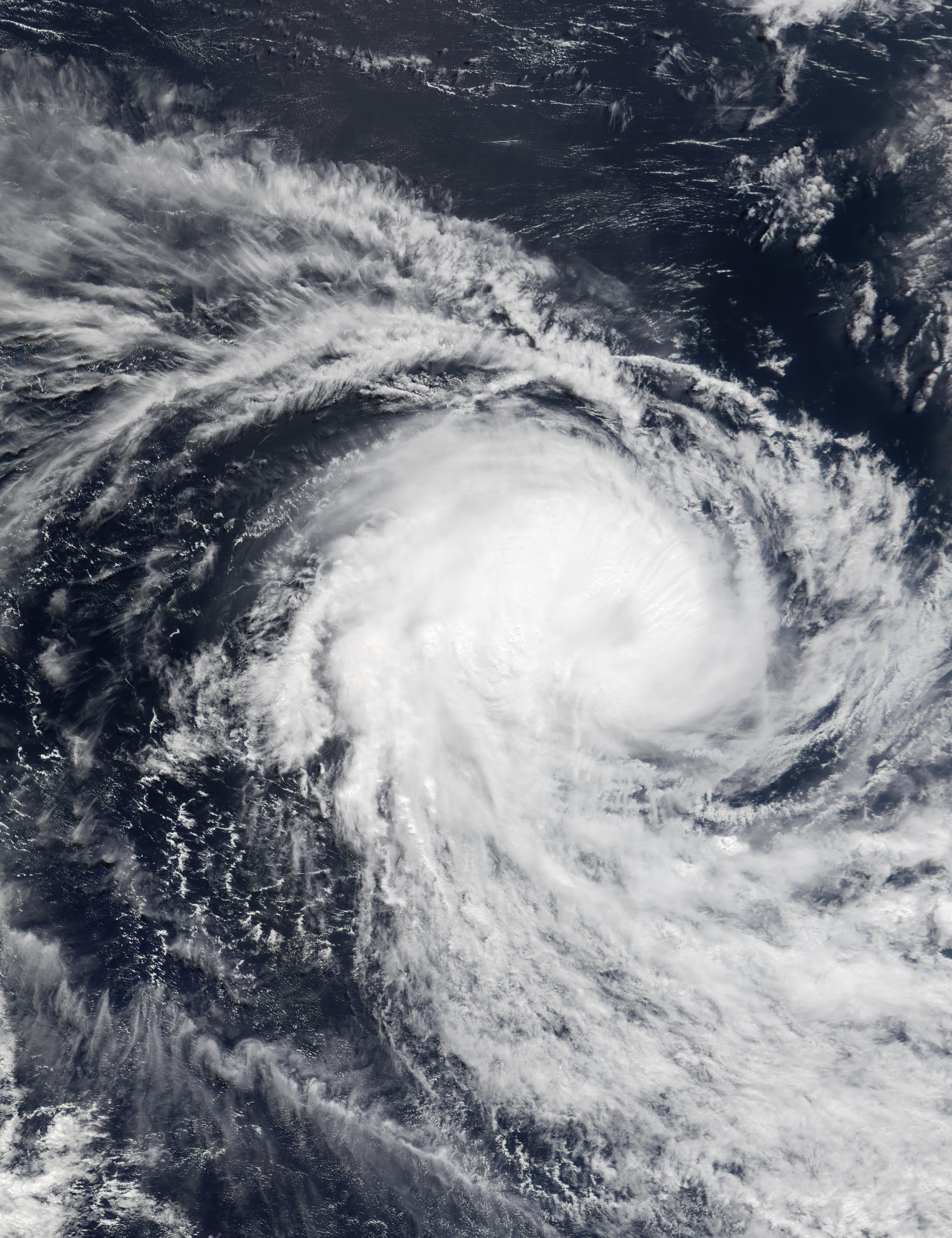 Tropical Cyclone Kesiny can be seen over the Indian Ocean in this true color image taken on May 6, 2002, at 6:45 UTC by the Moderate-resolution Imaging Spectroradiometer (MODIS), flying aboard NASA's Terra spacecraft. When this image was taken, the cyclone was several hundred miles east of northern Madagascar and packing winds of up to 120 kilometers (75 miles) per hour. As the cyclone continues its approach southwest into Madagascar, it is forecast to increase in intensity and generate sustained winds of up to 139 kilometers (86 miles) per hour.